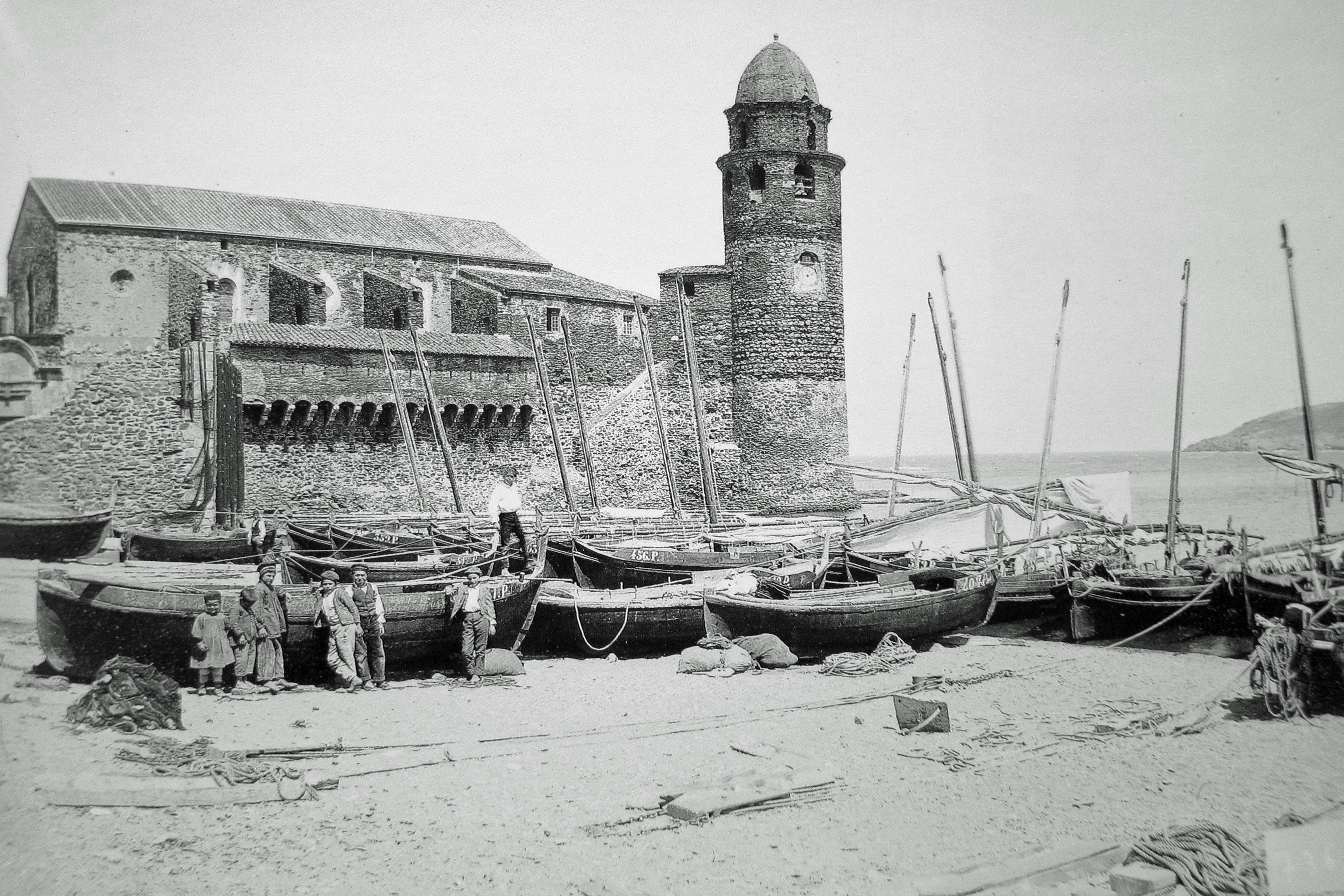 "Collioure. Vue du château fort [église Notre-Dame des Anges]"